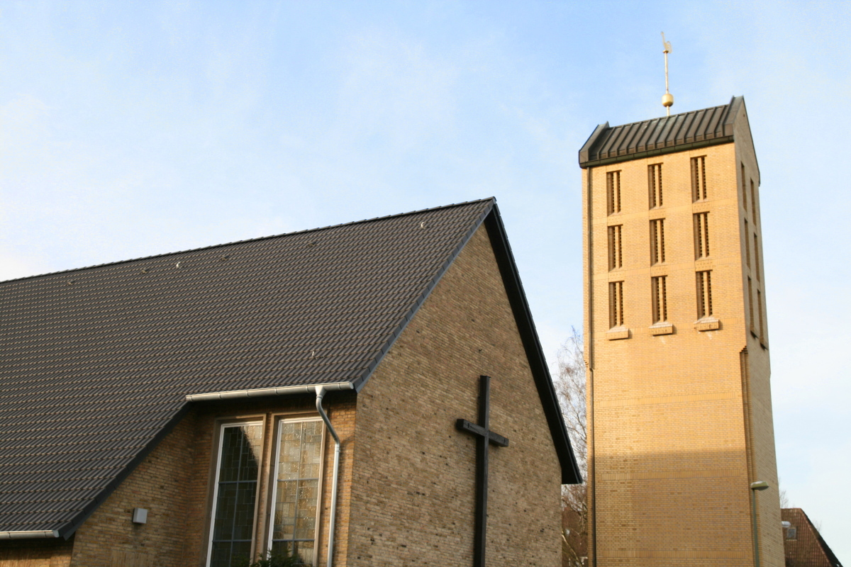 Church of Wichern in Neumünster, spire and parts of nave